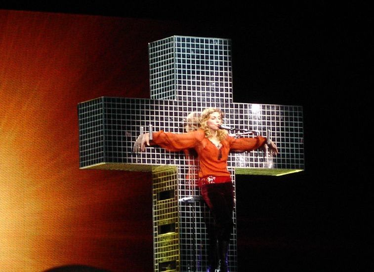 Madonna - Wembley Arena - 9th August 2006